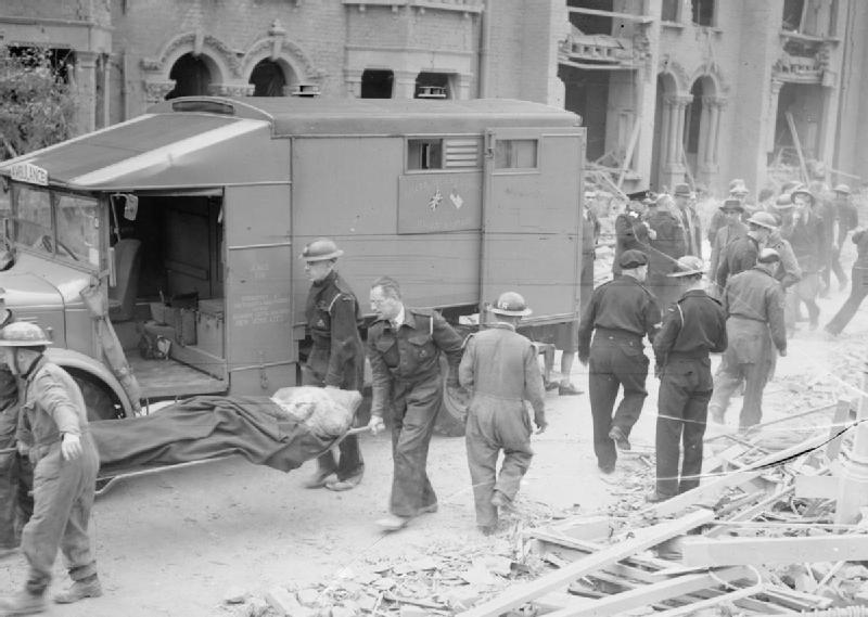 Flying Bomb- V1 Bomb Damage in London, England, UK, 1944 A casualty is carried by Civil Defence stretcher-bearers past an ambulance of the American Ambulance Great Britain following a devastating V1 attack in the Highland Road and Lunham Road area of Upper Norwood. In the background, other Civil Defence workers can be seen as they work to clear the rubble, timbers and debris from the road, and collect more casualties.